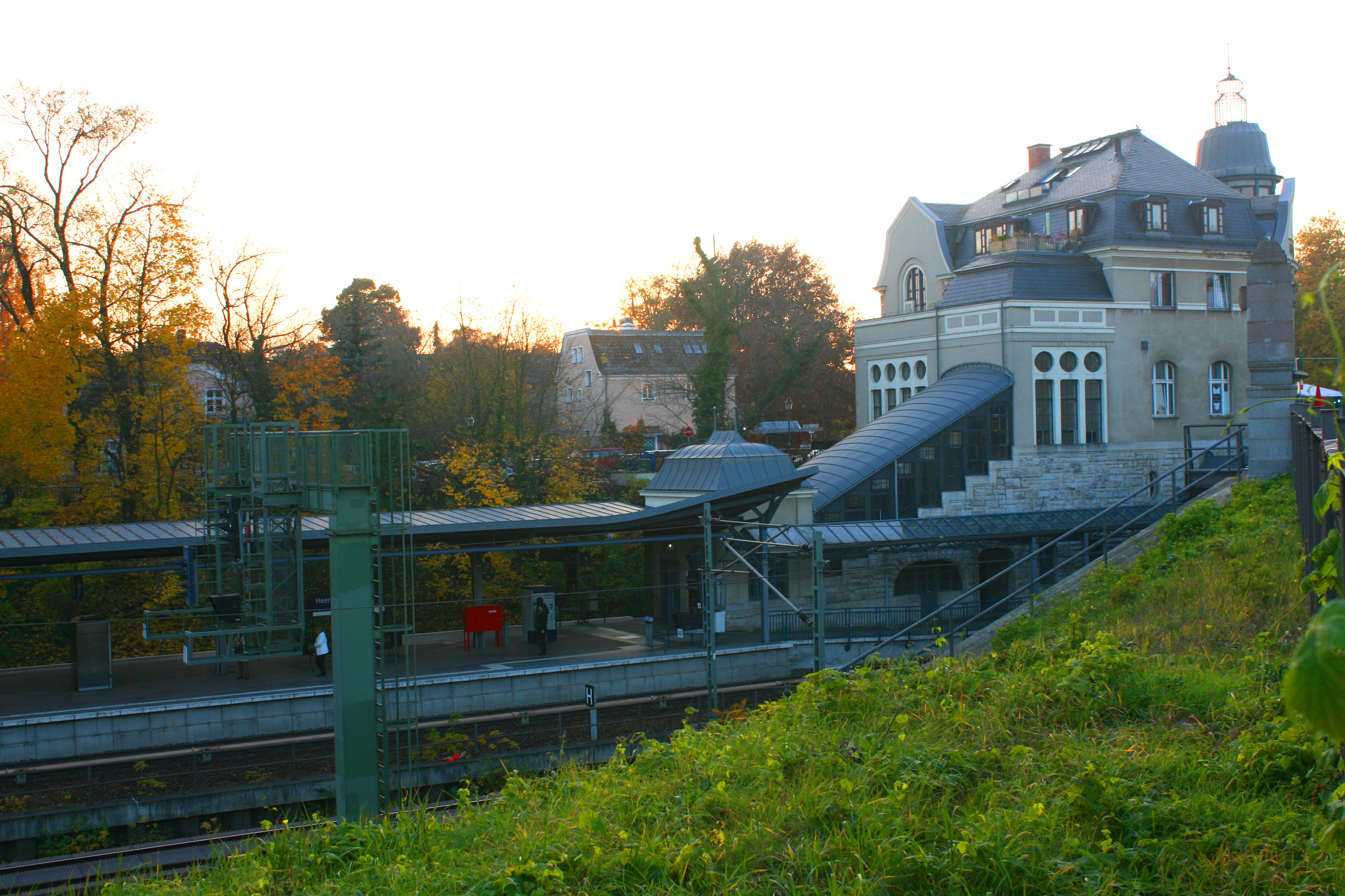 Bahnhof Berlin Heerstraße seen from east